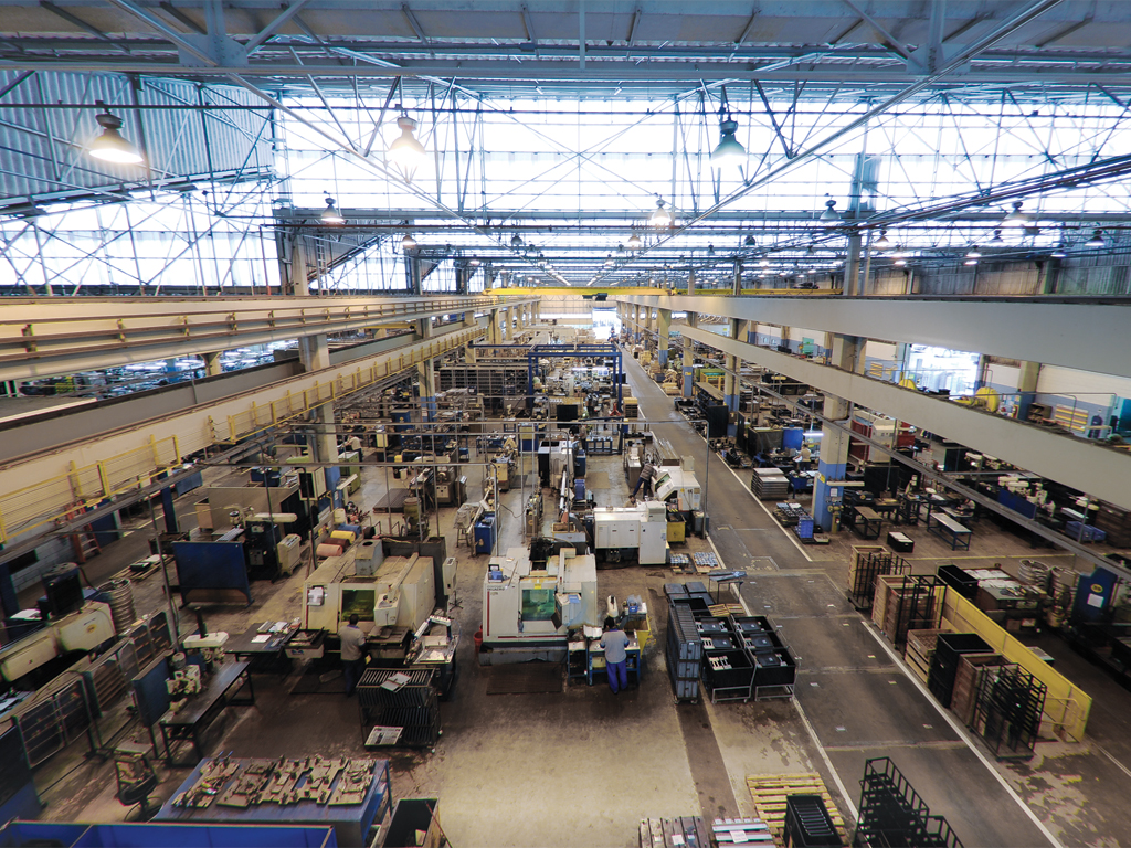 Internal topview of Toledo do Brasil´s plant